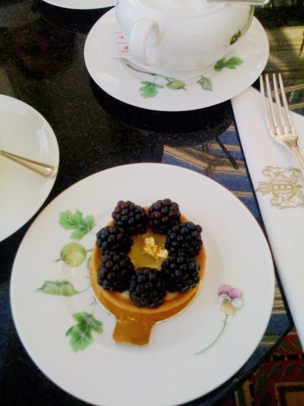 Served to me at the Amstel Hotel in Amsterdam. It had a sliver of real gold in the middle that you eat. Couldn't make out the taste but it feels good.